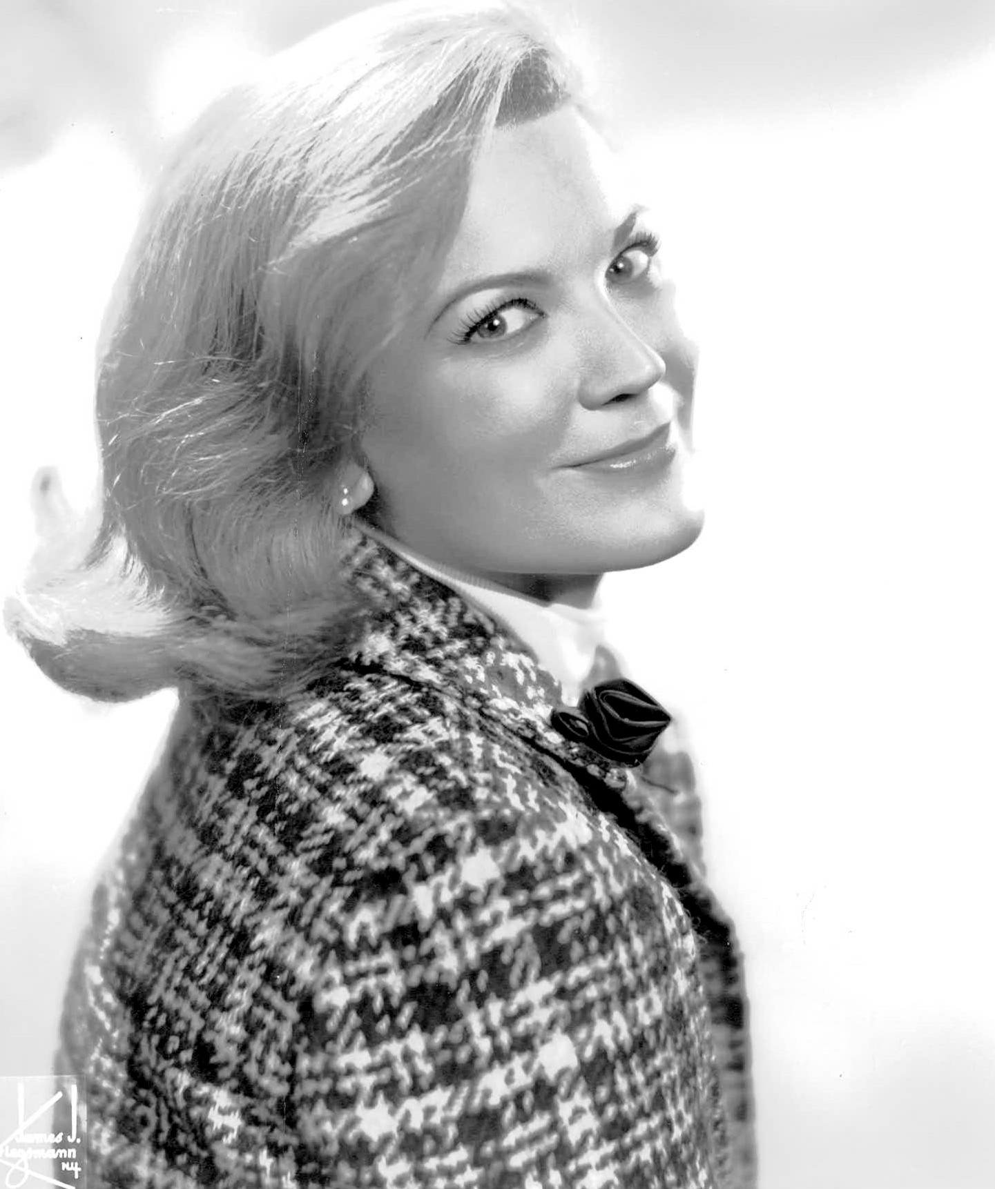 Photo of vocalist Teresa Stich-Randall.